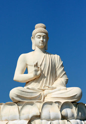 Gautam Buddha was the Forefather of Great rajput Nations Rathore and Dhudhi.